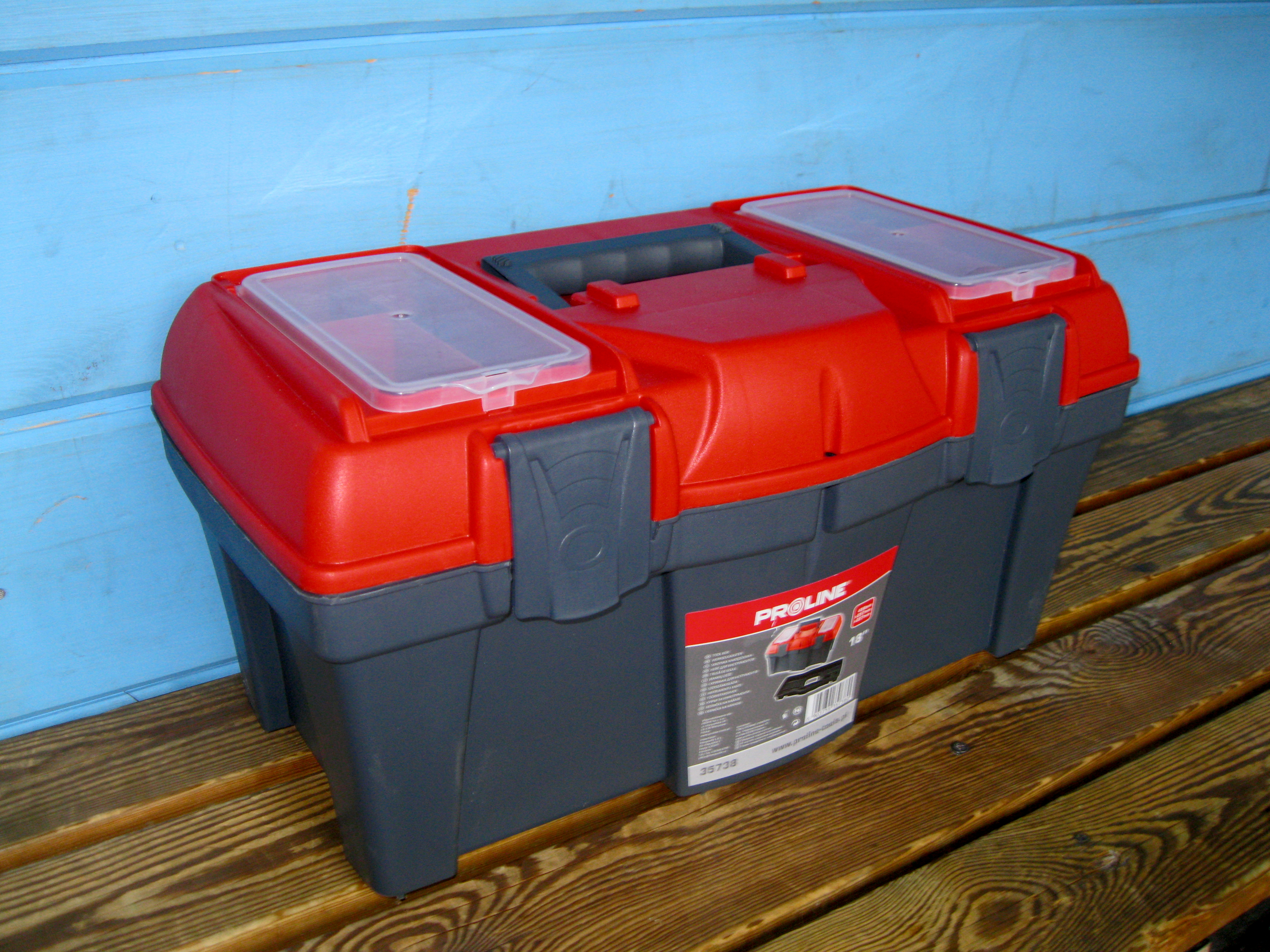 Proline toolbox 35738